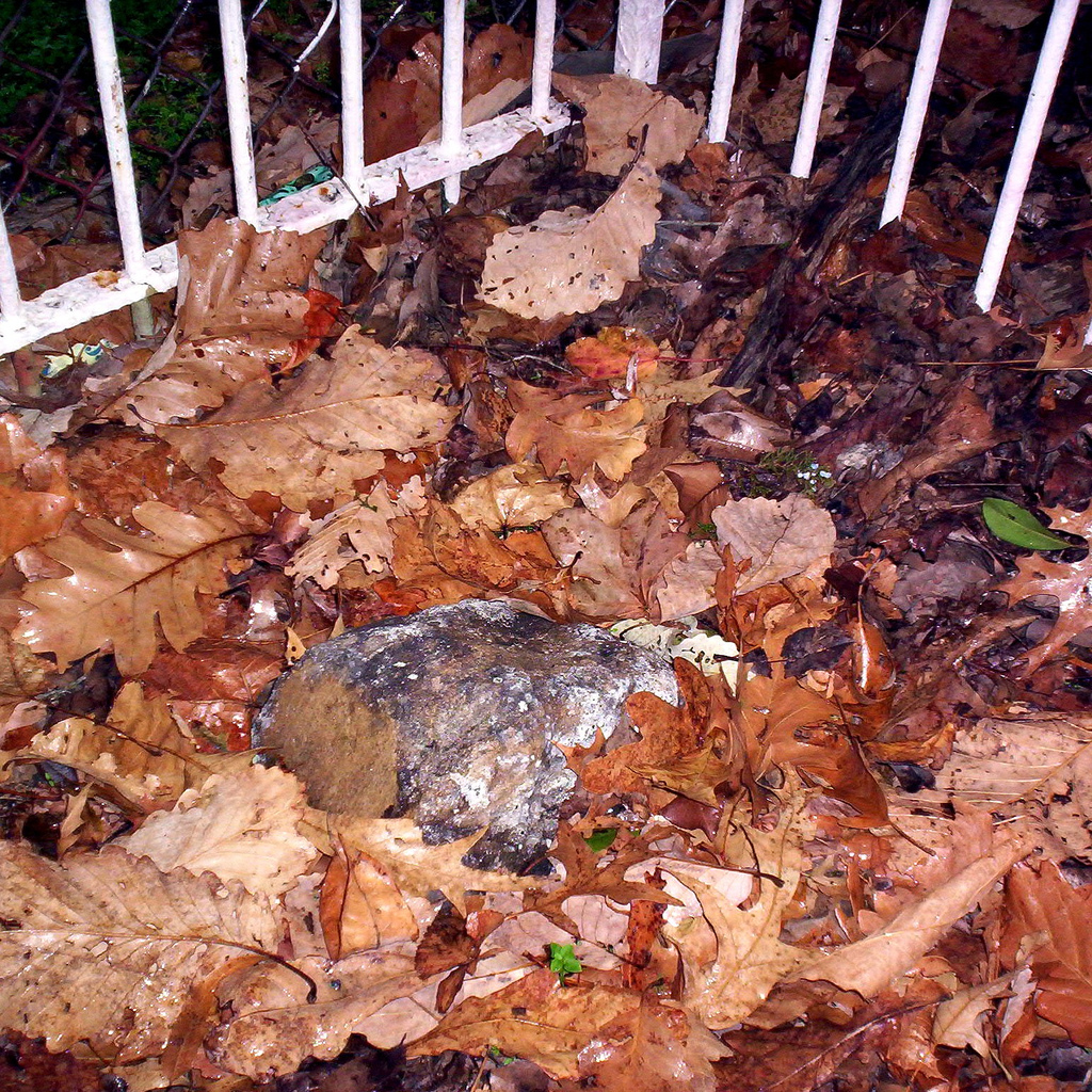 DC Boundary Stone Southwest Mile 4, that is the boundary marker 4 miles NW of the southernmost marker of the original District of Columbia, now in northern Virginia. The stone was placed in 1791-1792 by Andrew Ellicott and Benjamin Banneker. See for a map of these stones.